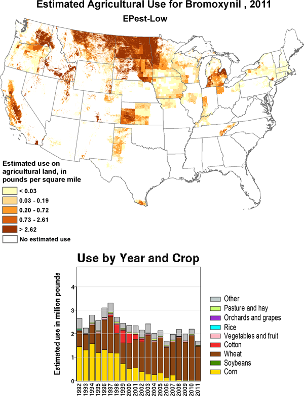 Bromoxynil map of use, USA, 2011 (estimated)